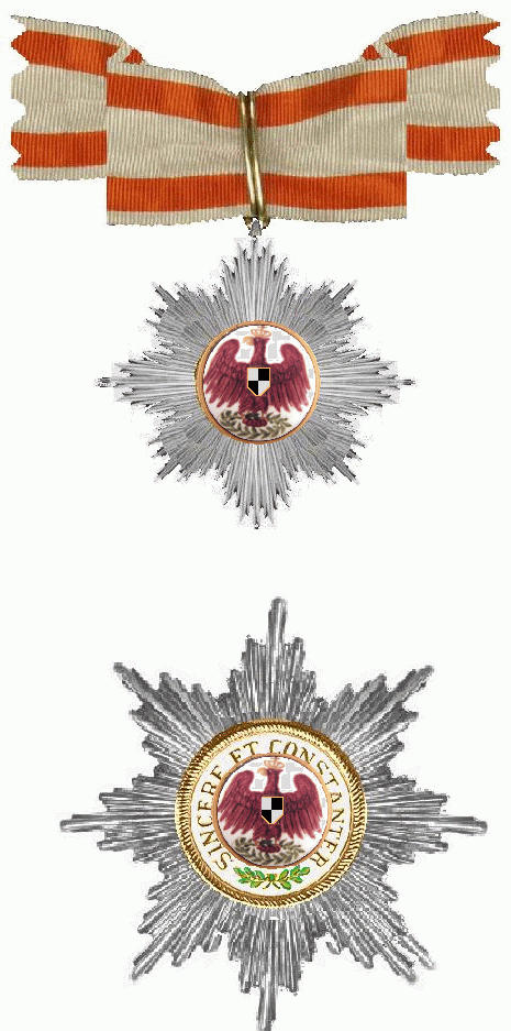 Order of the Red Eagle